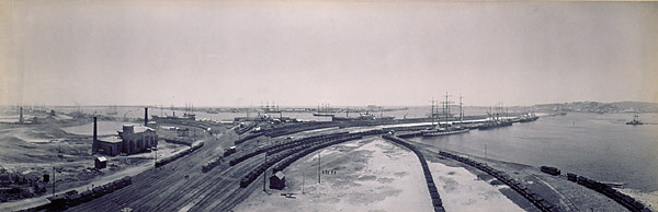 This view from above the Bullock Island railway shows colliers being loaded along Dyke wharf by hydraulic cranes. These were powered from the incongruous Italianate pumphouse on the left, which still stands in Carrington. Across North Harbour is Stockton, with Nobby Head in the distance. Newcastle is to the right. Hetton colliery on the far left was one of the few still in Newcastle. Find more information about the Melvin Vaniman collection of photographic panoramas in the State Library of New South Wales' catalogue: .au/item/itemdetailpaged.aspx?itemid=413018